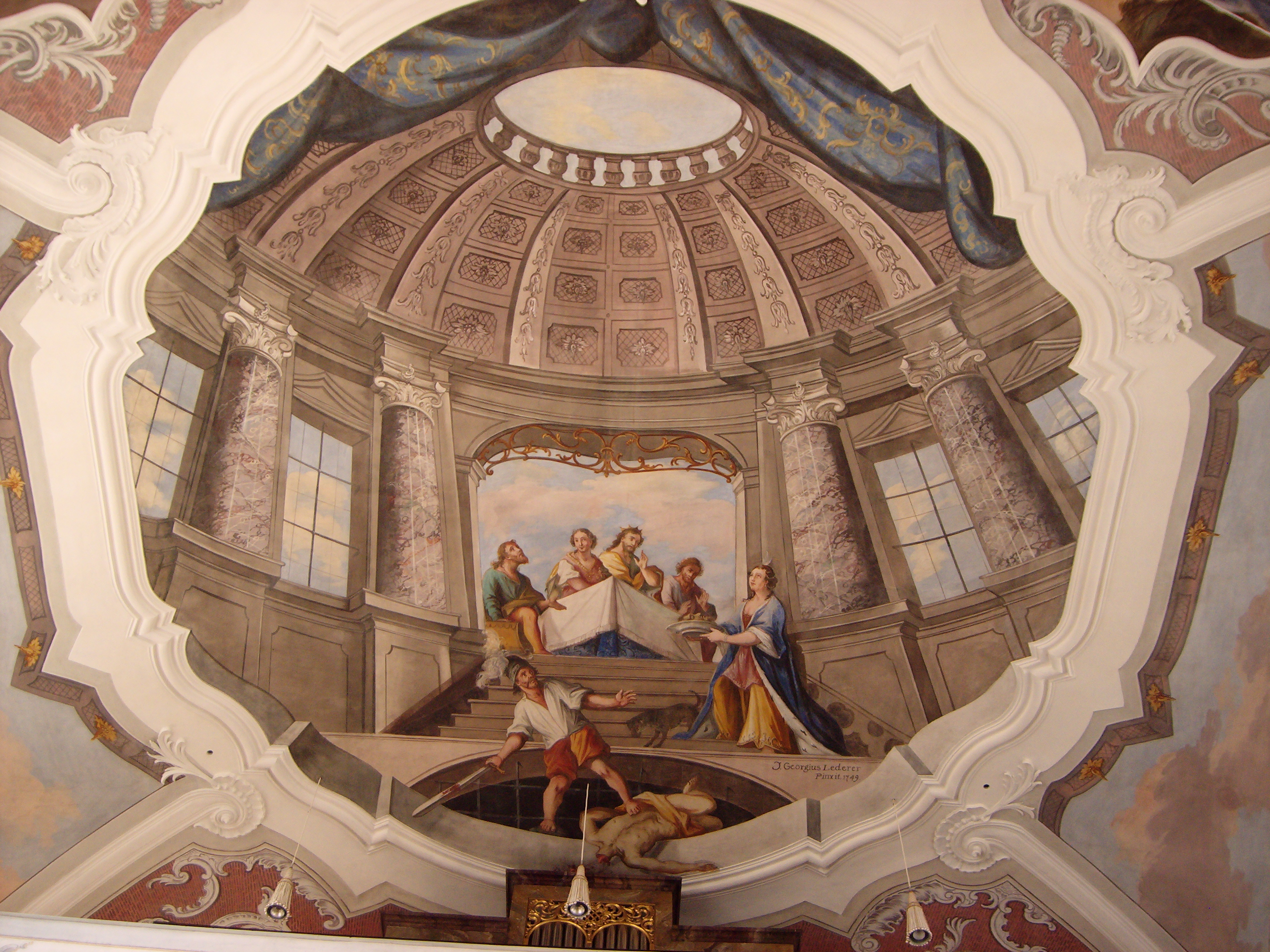 Salome, daughter of Herodes Antipas brings her mother Herodias the head John_the_Baptist. Fresco in Church St. John the Baptist in Igling, Germany, painted by Johann Georg Lederer, 1749